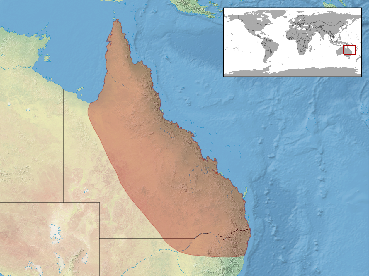 geographic distribution of Gehyra dubia (Native: Australia (Northern Territory, Queensland))